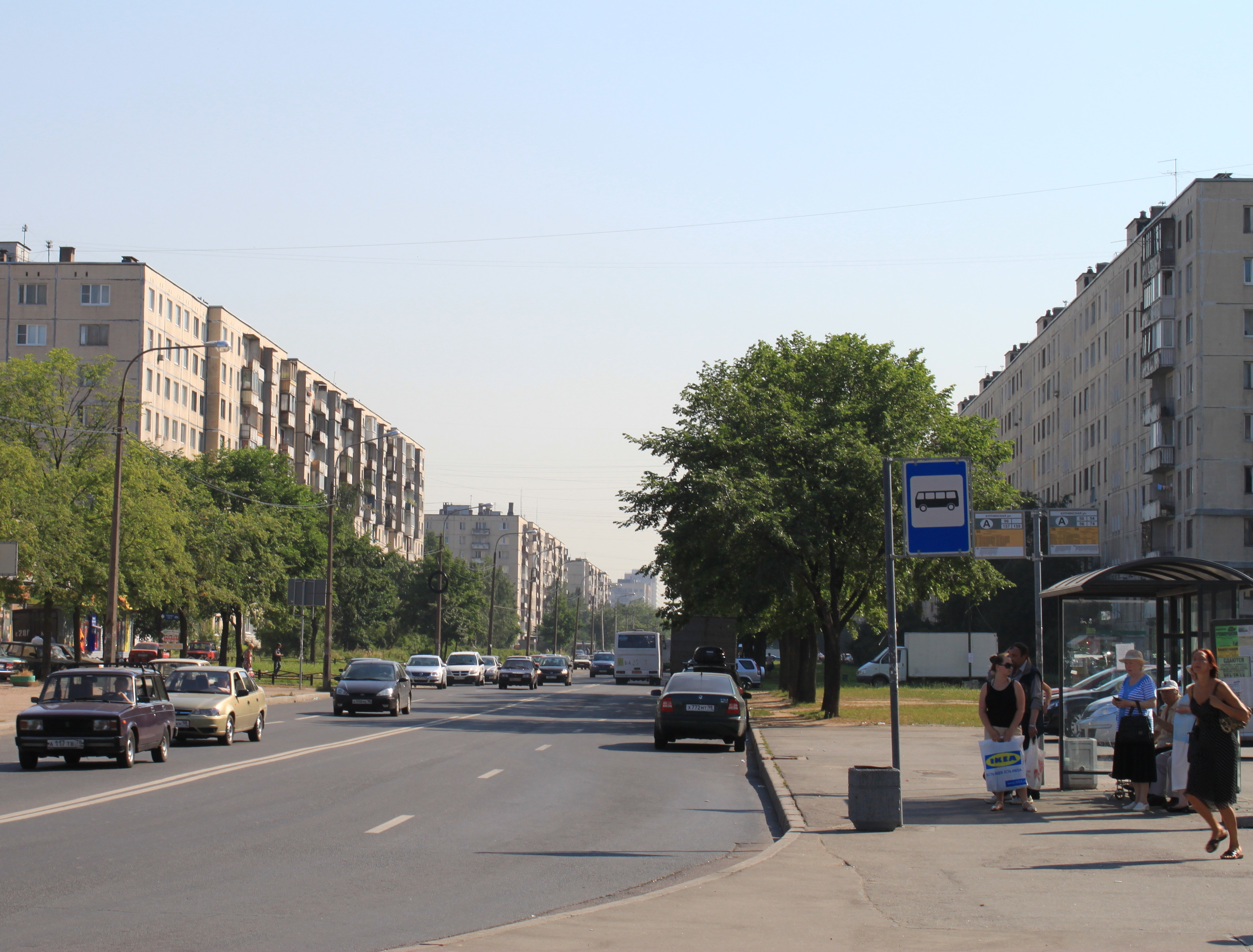 Kupchino